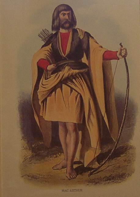 Source: James Logan, R. R. MacIan (ill.) The Clans of The Scottish Highlands. First published 1845, reprinted 1847.